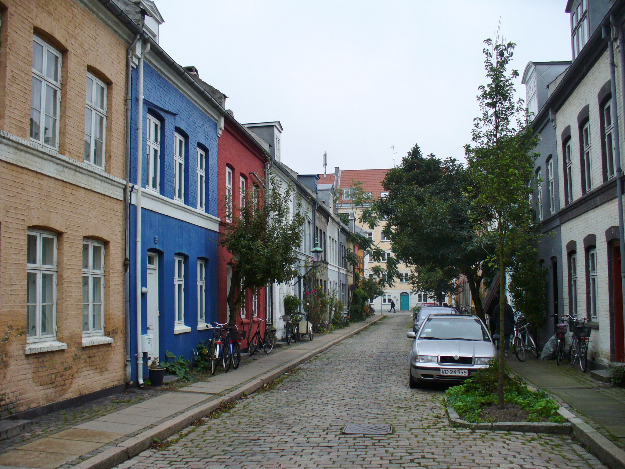 The street Krusemyntegade in Indre By in Copenhagen.